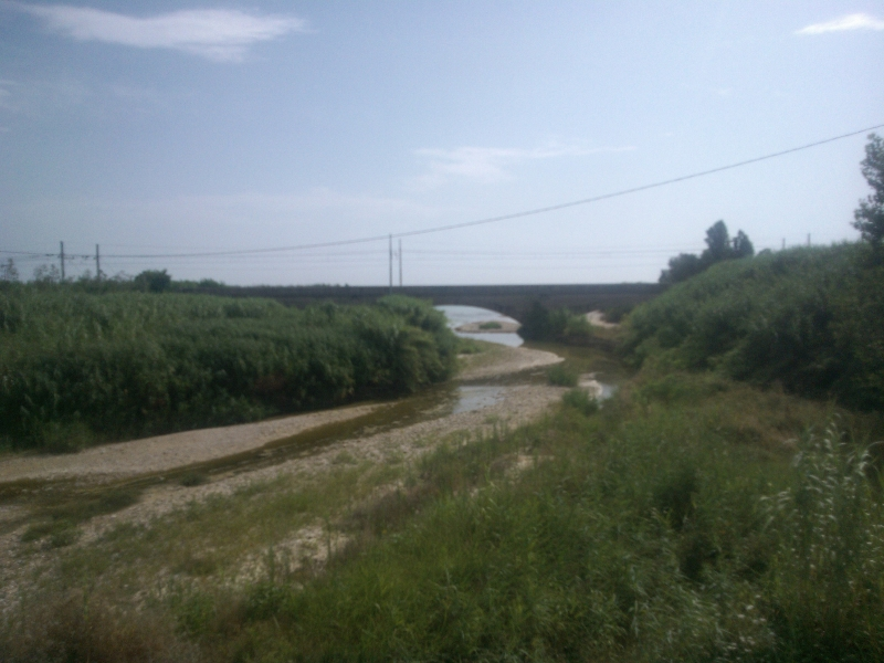 Menocchia river mouth near Cupra Marittima